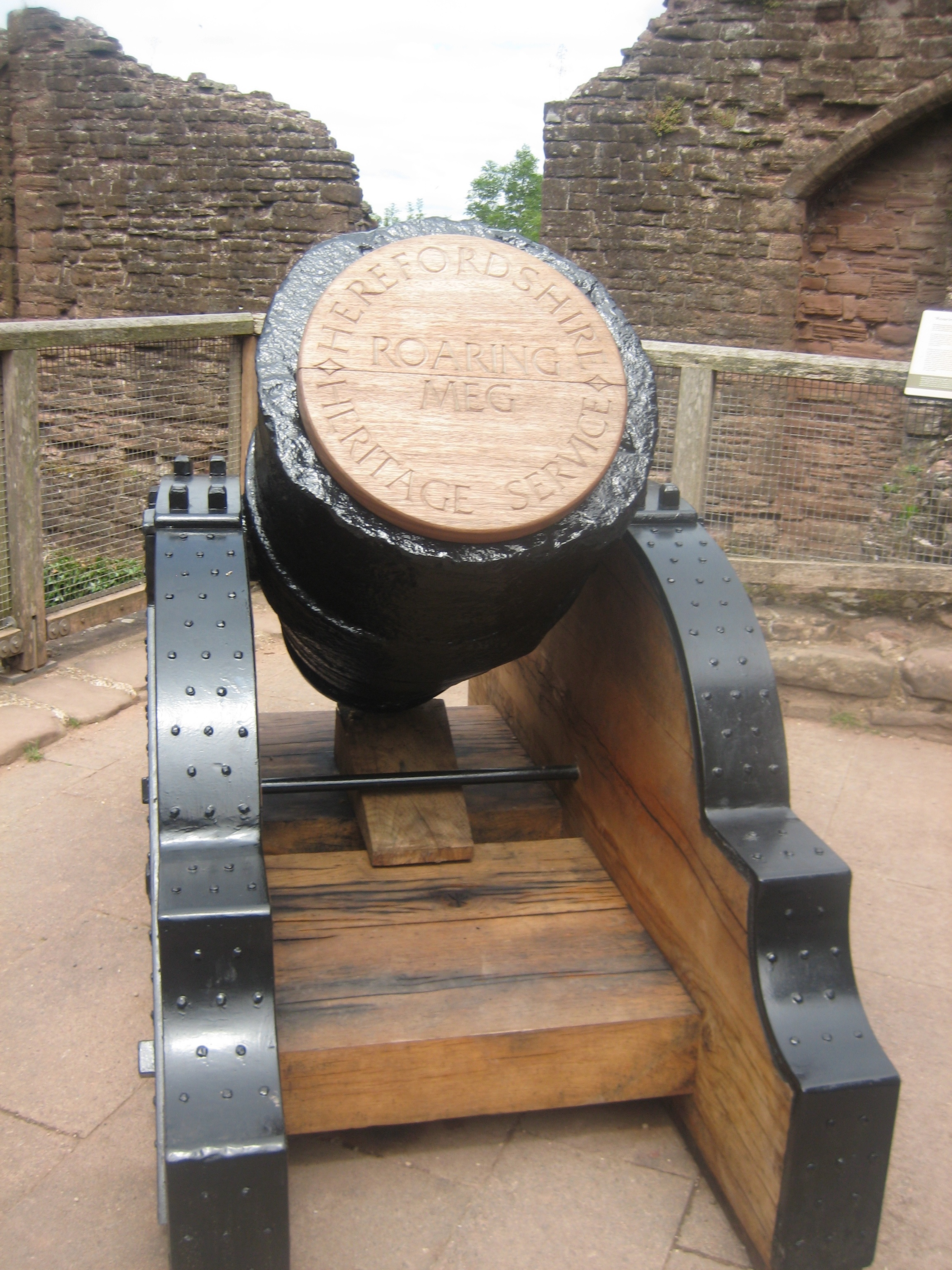 Roaring Meg, a mortar used in the taking of Goodrich Castle during the English Civil War. View from the front.